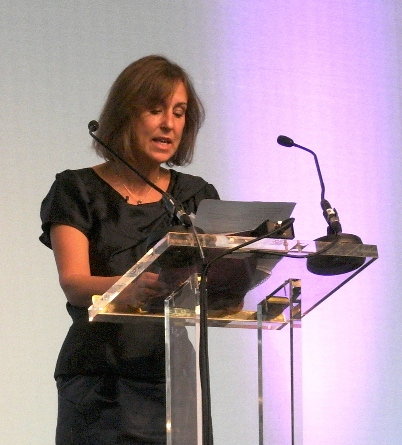 crop of Kirsty Wark at a podium at Innovate'08 Conference, October 7th, London from an image titled 'Kirsty Wark sings the official anthem of innovation'